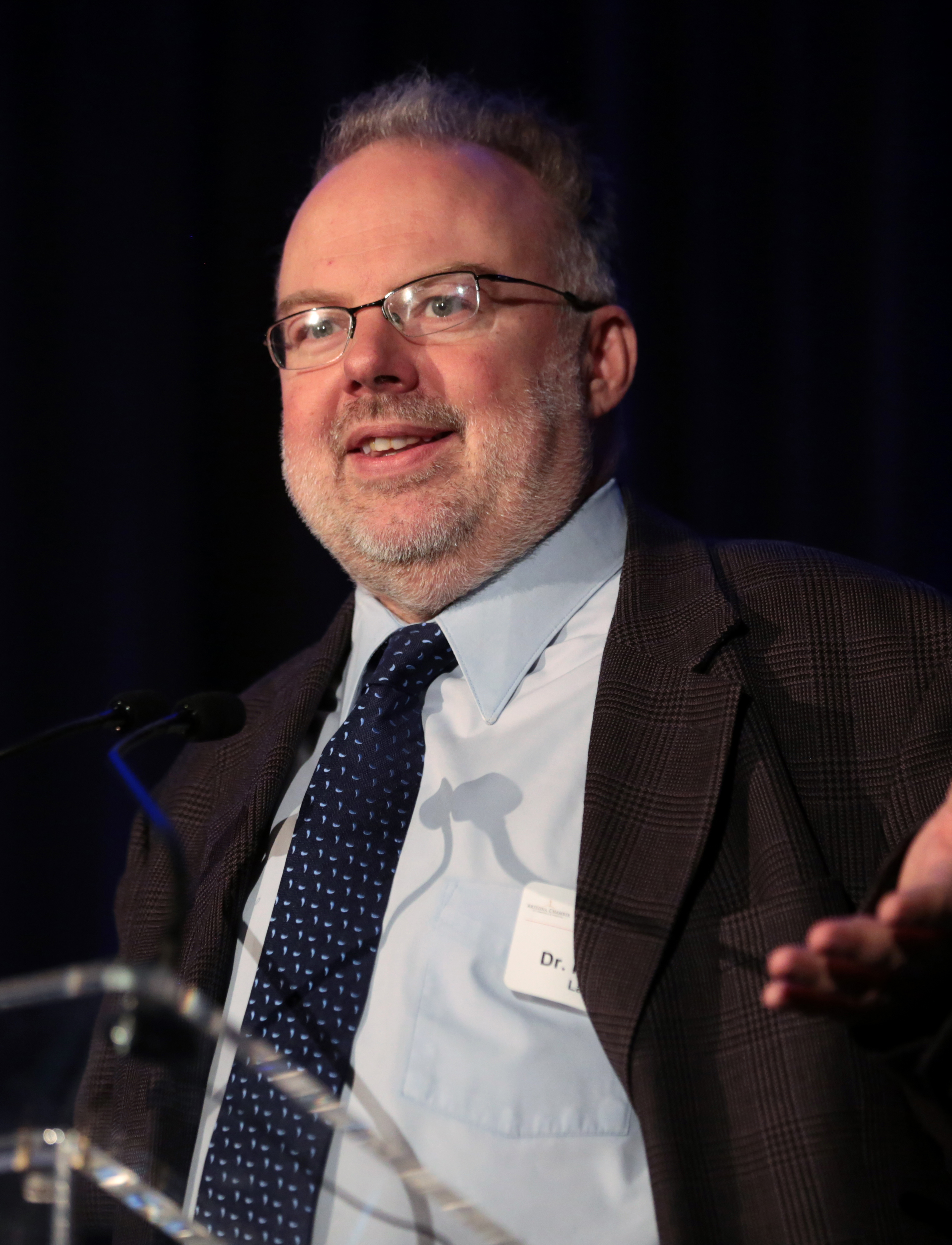 Matthew Ladner speaking at an event in Phoenix, Arizona.